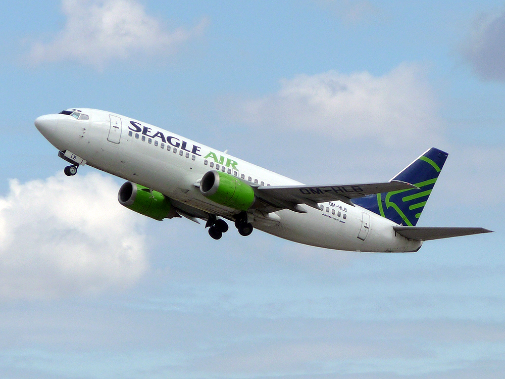 Boeing 737-33A, OM-HLB, Seagle air